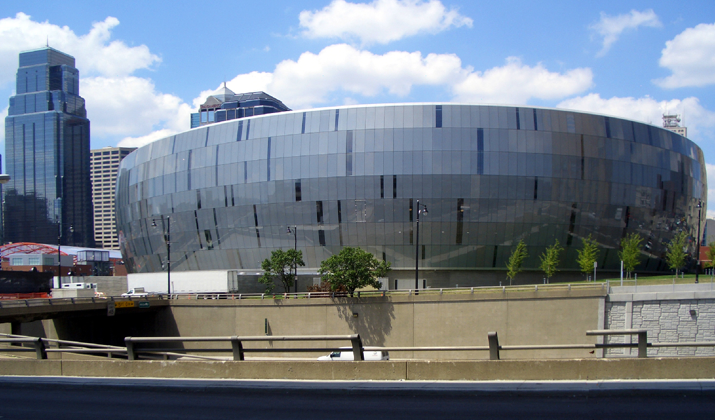 Sprint Center (view from south), Kansas City, Missouri